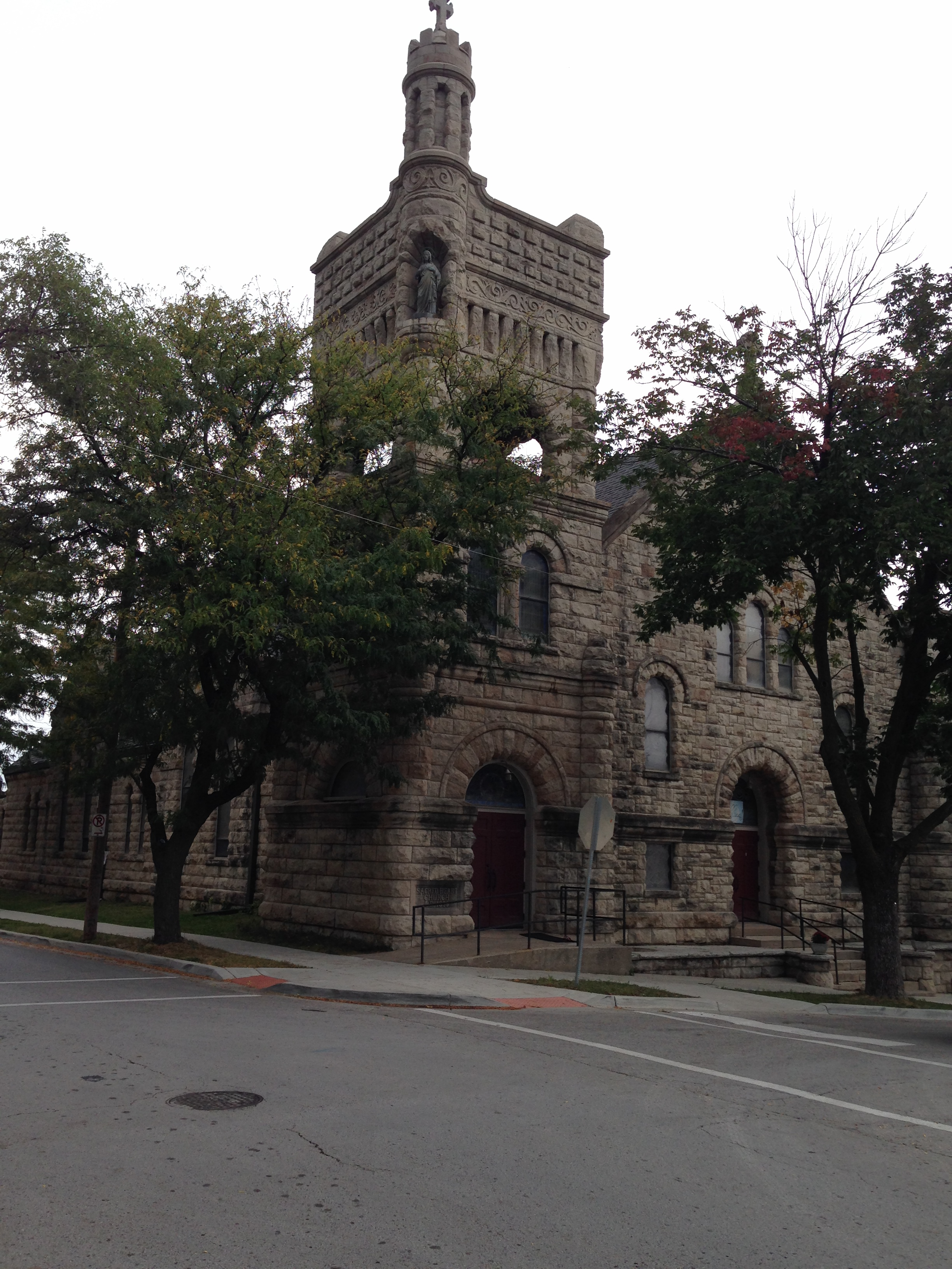 Photograph of Sacred Heart Catholic Church at the corner of Madison and 26th streets, Kansas City, Missouri.